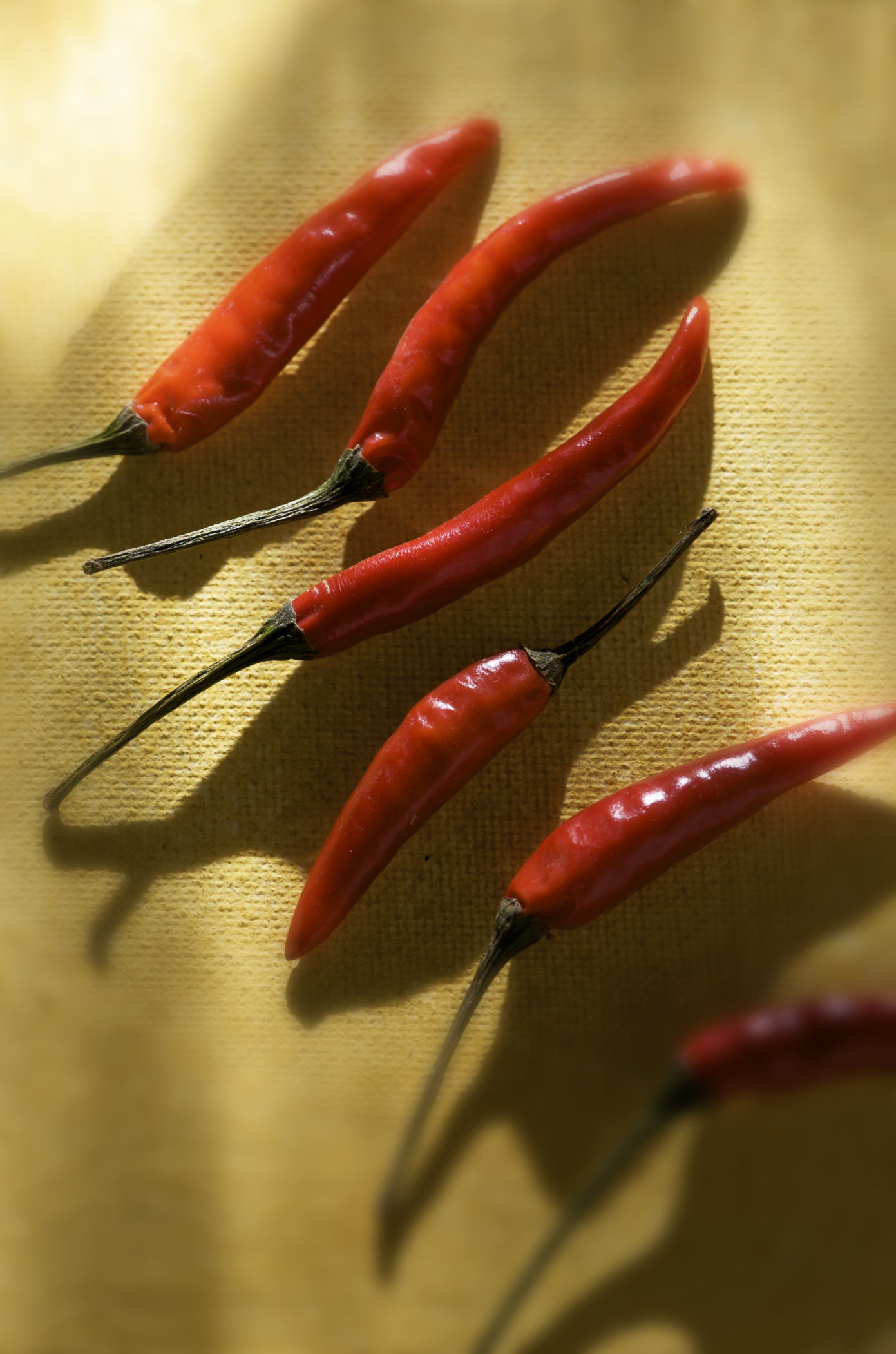 Chilli